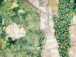 CIFOR's research helps governments and communities achieve conservation and development objectives.